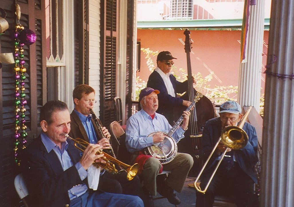 Jazz band, New Orleans, playing for a Carnival party at a home in the French Quarter. Shown are Chris Clifton, trumpet; Brian O'Connell, clarinet; Les Muscutt, banjo; Chuck Badie, string bass; and Tom Ebert, trombone.